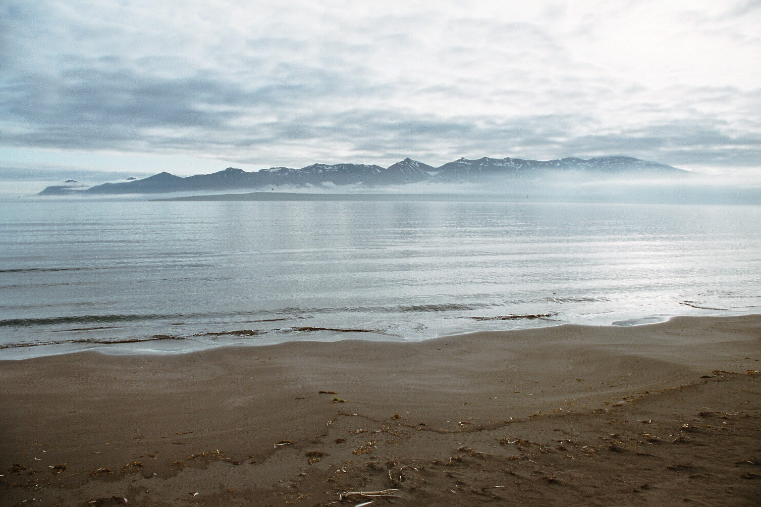 Eyjafjörður from Dalvík's beach, 2005.